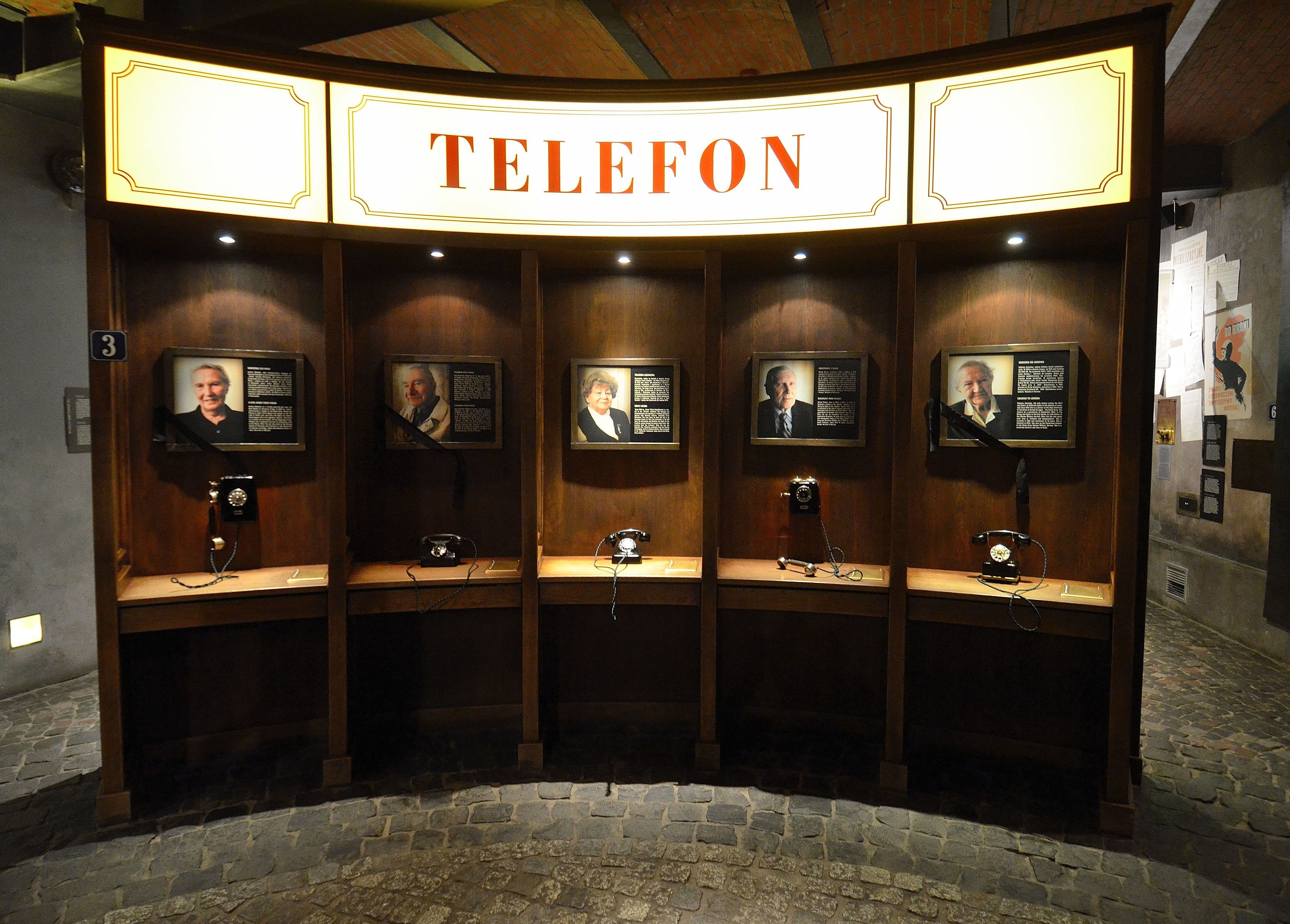 Warsaw Uprising Museum